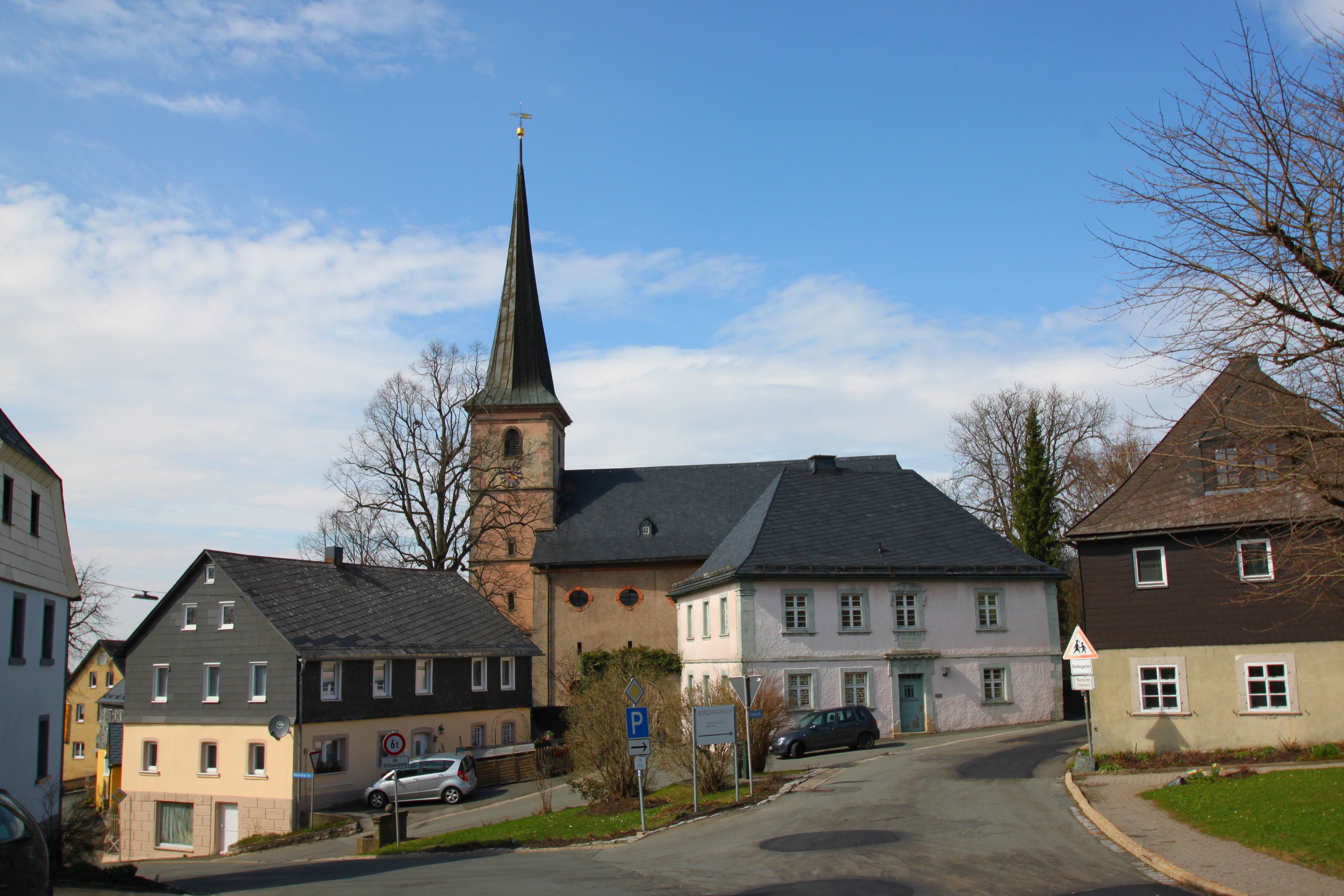 Market place of Presseck